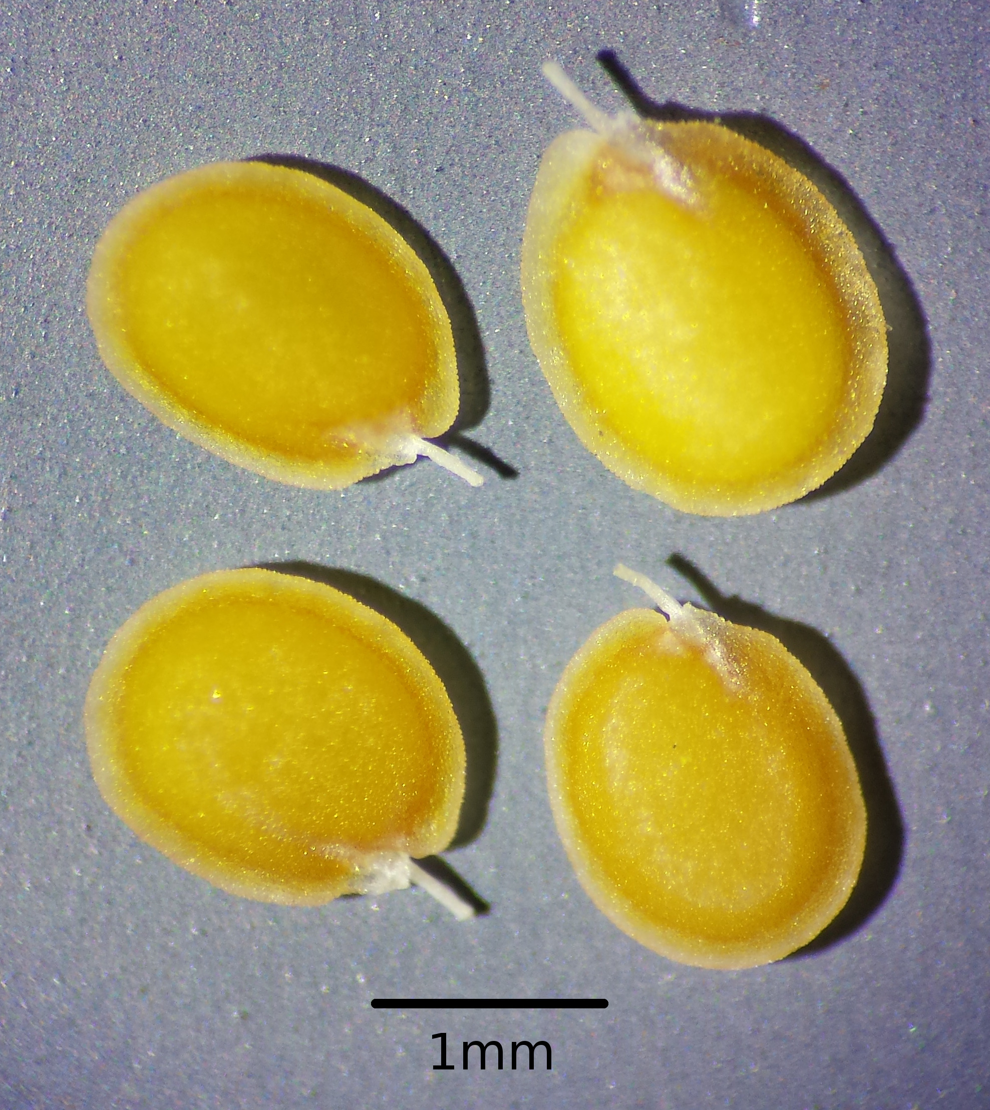 Seeds Taxon: Alyssum alyssoides (sensu Fischer et al. EfÖLS 2008) Location: New Danube, Floridsdorf, Vienna - ca. 160 m a.s.l. Habitat: ruderal area next to way on dam